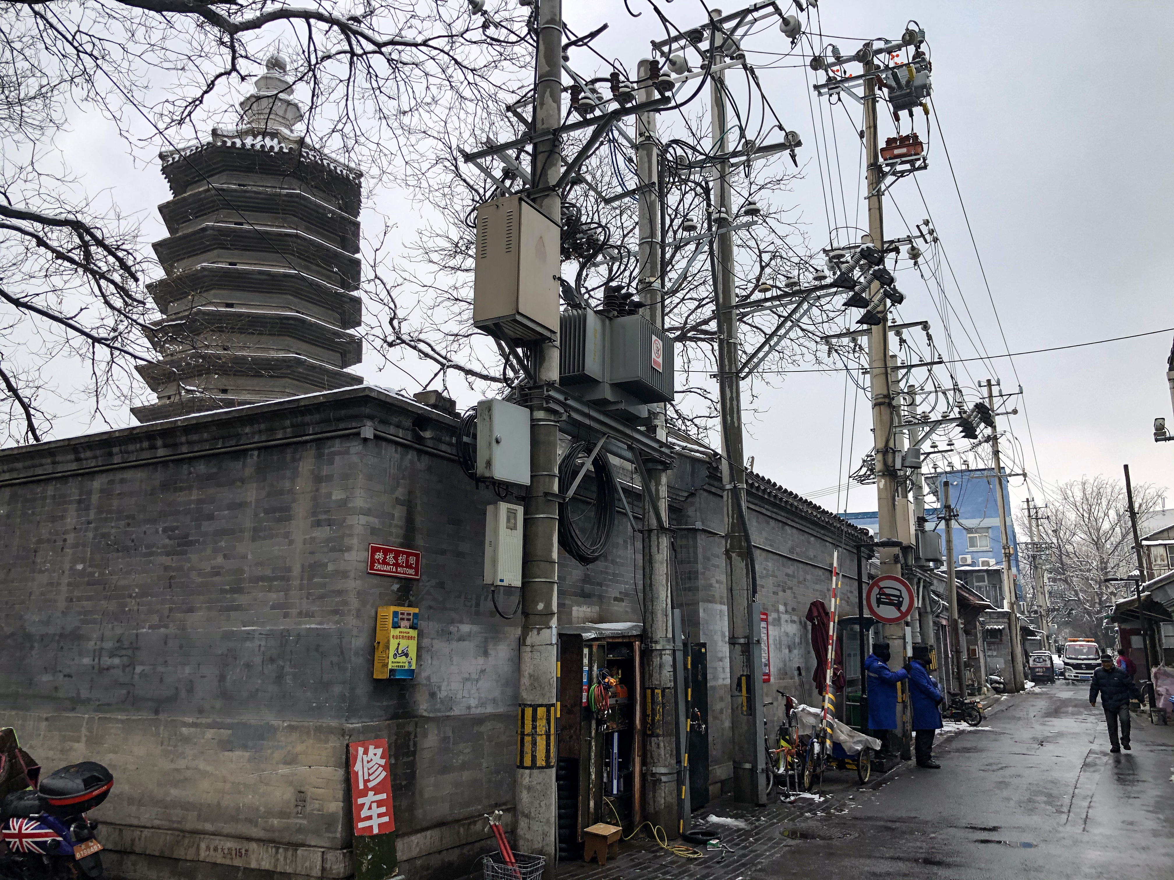 "Brick Pagoda" is right here.